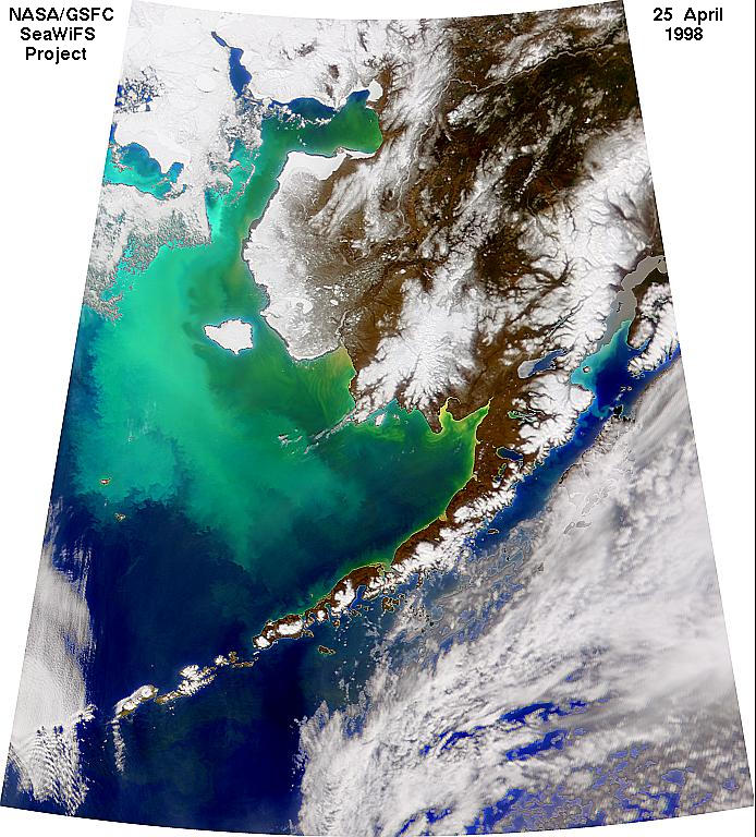 NASA SeaWiFS image taken on April 25, 1998, showing the coccolithophore bloom in the Bering Sea. This is not a false-color image: the greenish color is caused by the high concentration of phytoplankton. NB Subsequent research suggests that this image, and others from the area showing bright waters early in the year, probably show resedimented particles not an active coccolithophore bloom (Broerse et al. 2003, Continental Shelf Research, 23, 1579-1596).